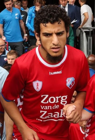 16.08.2017. Нидерланды, Утрехт, стадион «Галгенвард». Лига Европы УЕФА 2017/2018, 4 кв. раунд, "Утрехт" - Зенит".